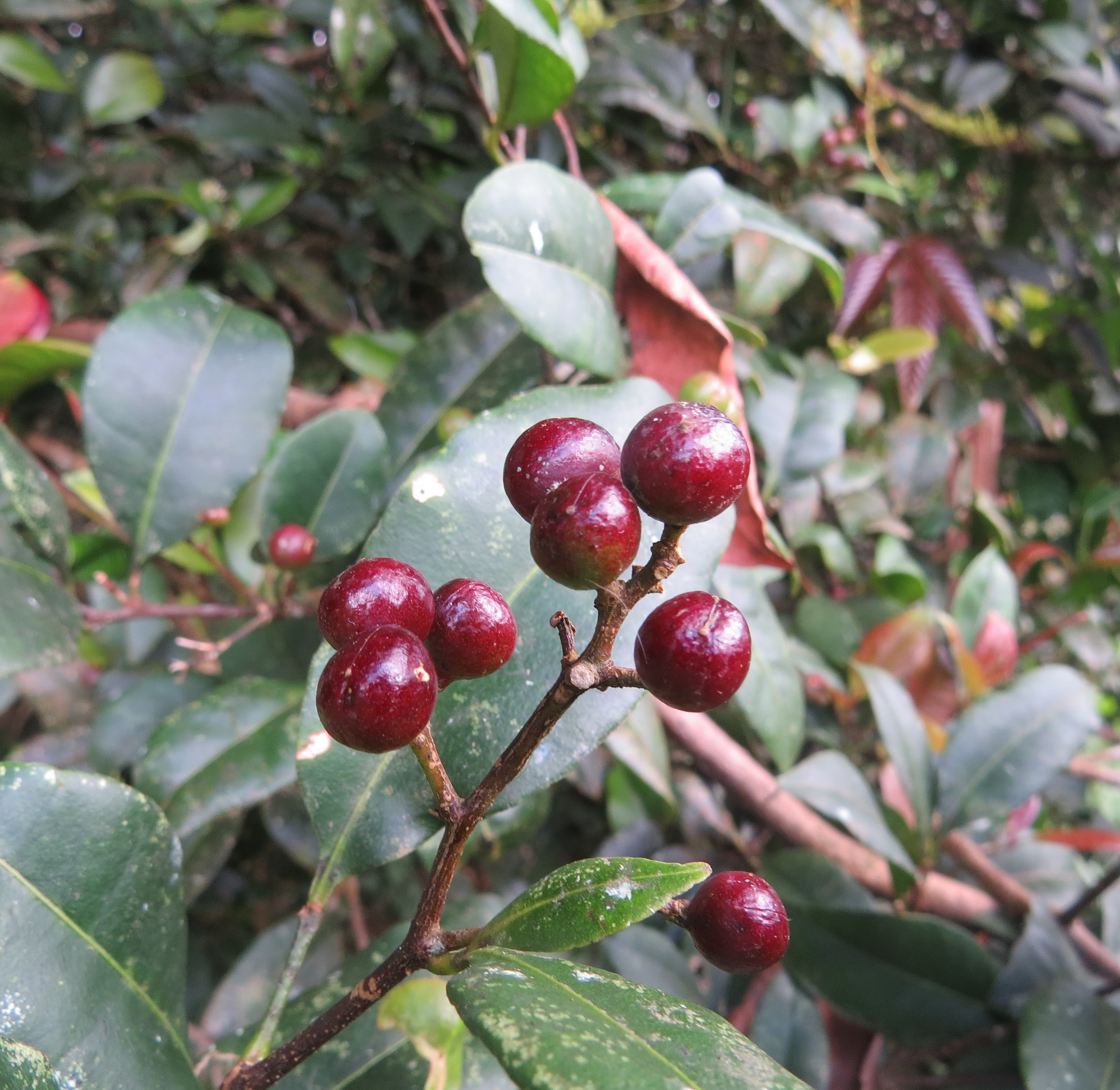 Zanthoxylum ovalifolium from Parambikulam